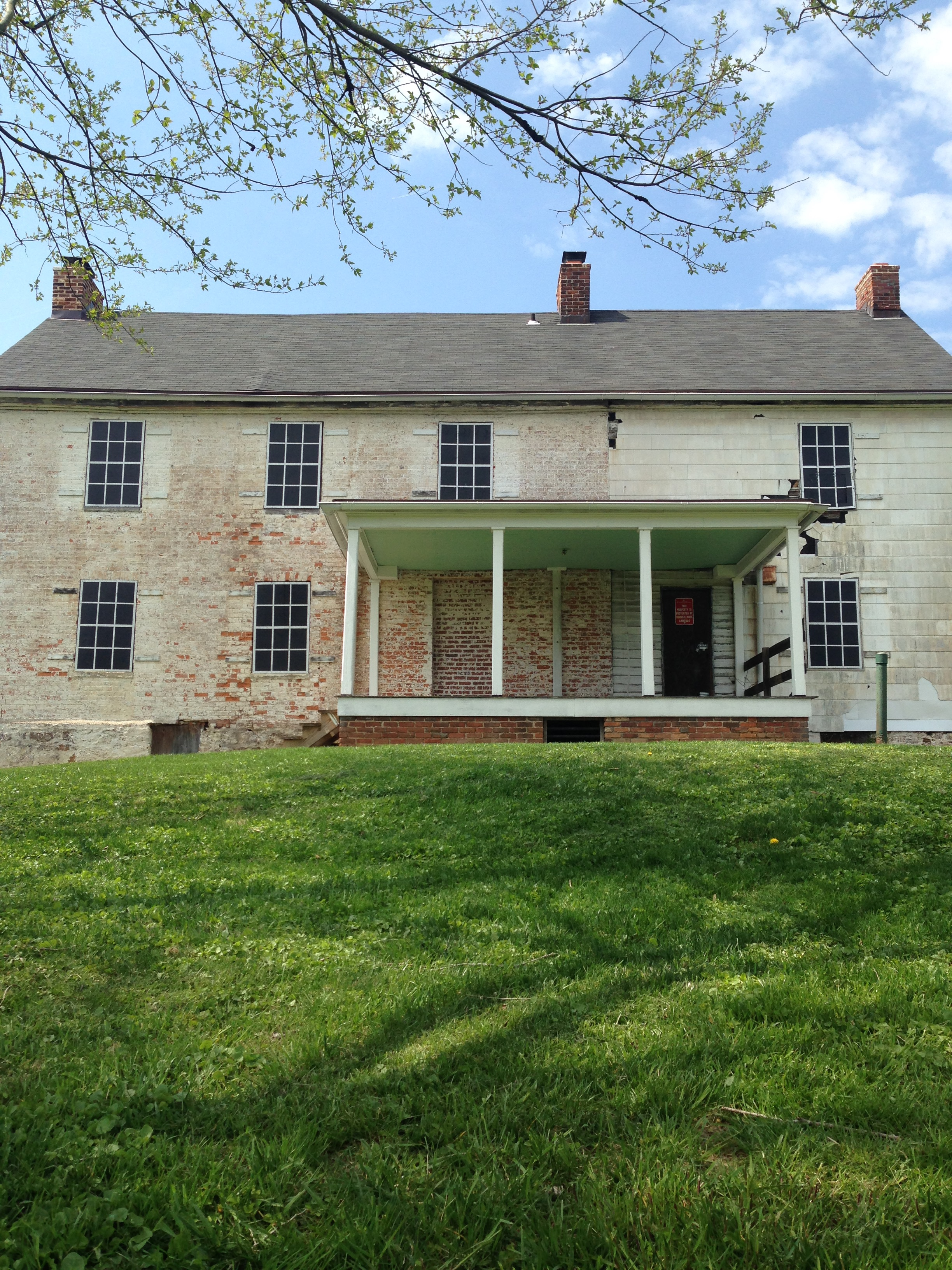 Clover Hill Mansion House looking west (at the back end) in Rockburn Branch Park in Elkridge, MD.